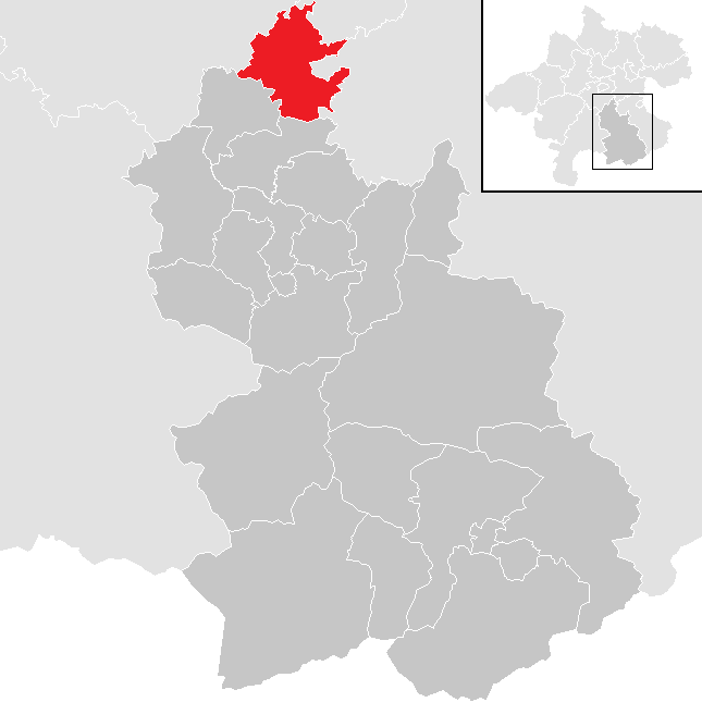 district Kirchdorf an der Krems